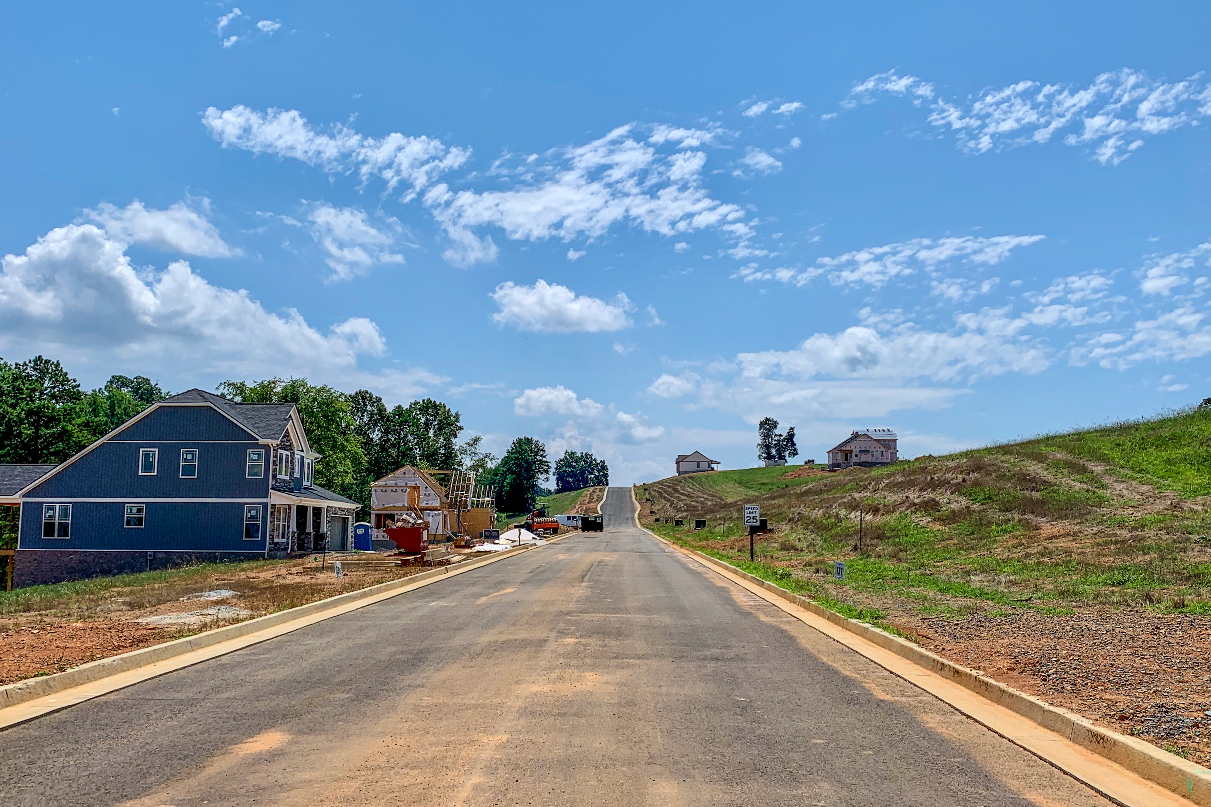 Residential construction work in recently annexed Bridgewater Point lakefront subdivision in Morristown, Tennessee, United States, August 2020.